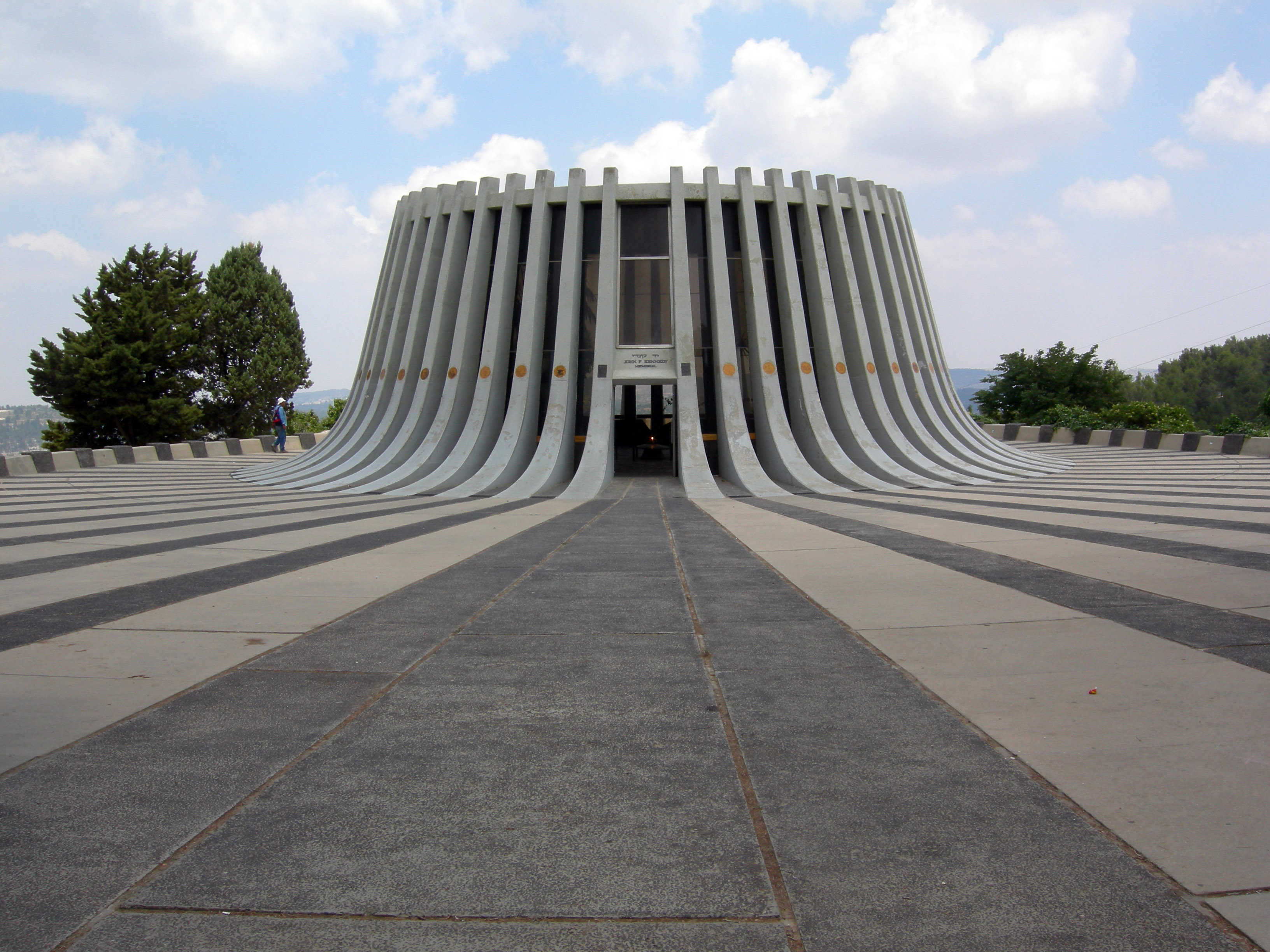 Yad Kennedy Memorial in the Jerusalem Forest, Israel.